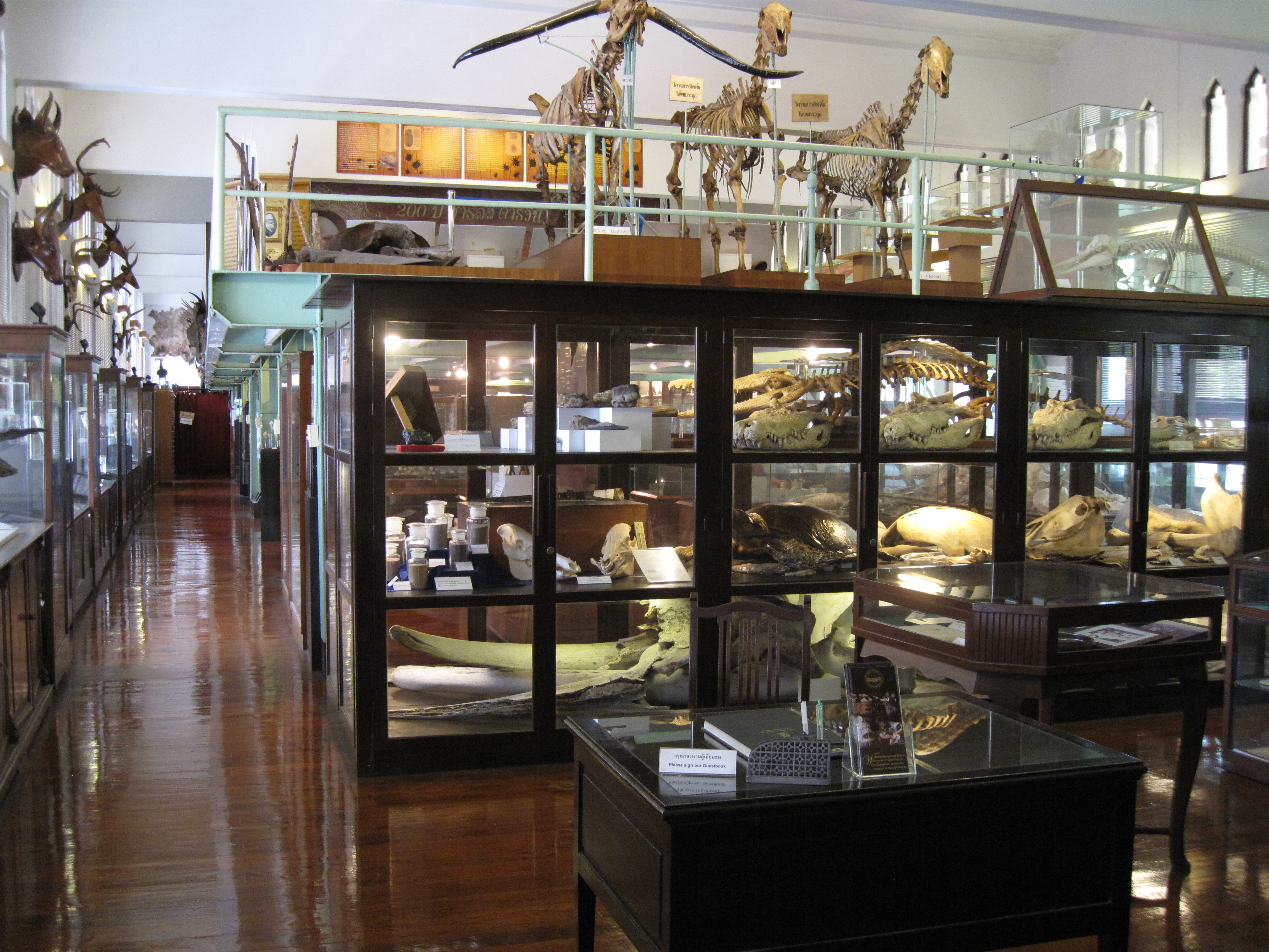 Main room of the Chulalongkorn University Museum of Natural History